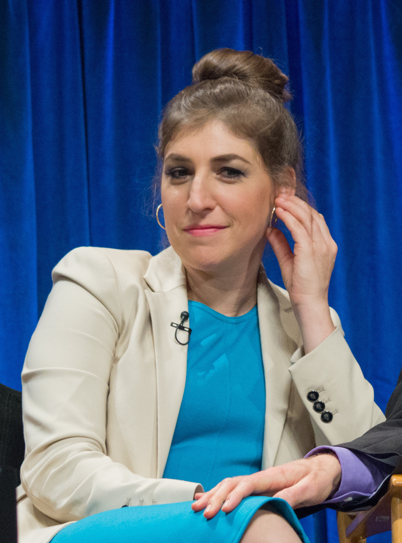 Mayim Bialik at Paley Center